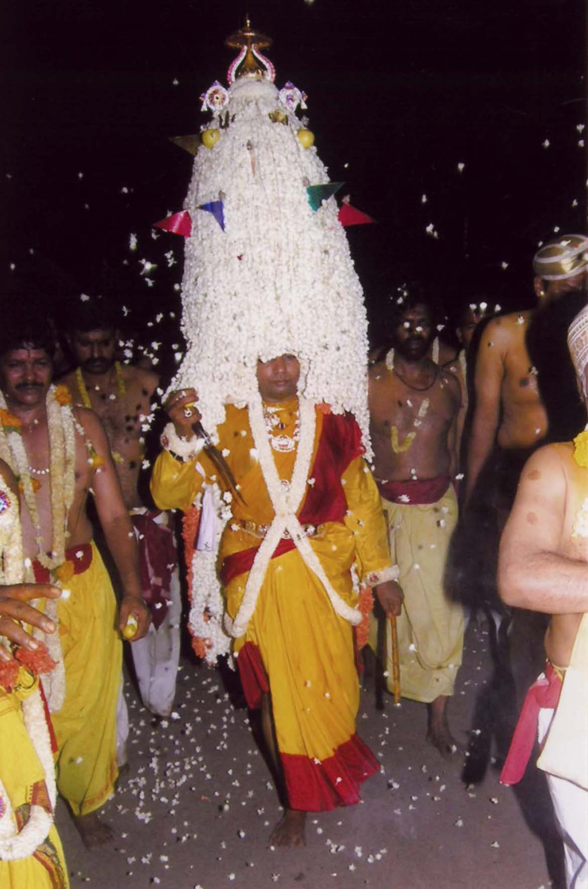 The karaga will take a pradhakshina of the peetashala of the temple and move out of the main temple and take darshana and aarathi of shakthi ganapathy, Muthyalammadevi and movies towards chariot